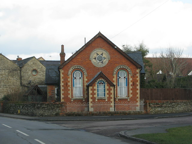 Stanford in the Vale, Oxfordshire (formerly Berkshire): former Primitive Methodist chapel, now a private home